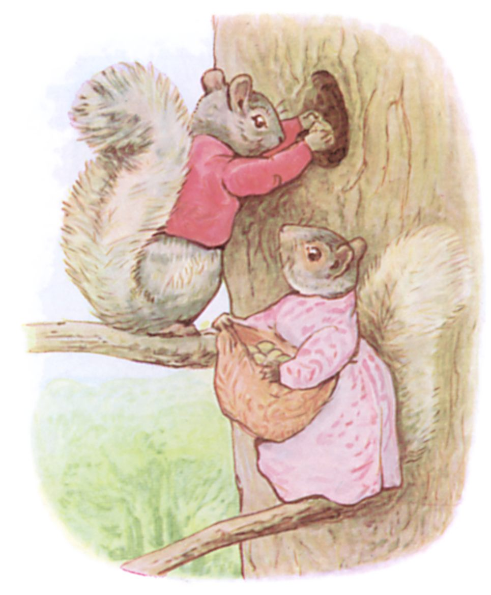 Illustration of Timmy and Goody Tiptoes from The Tale of Timmy Tiptoes